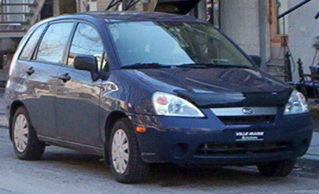 2002-2004 Suzuki Aerio SX photographed in Montreal, Quebec, Canada